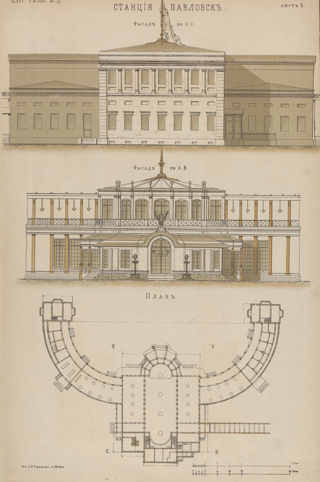 Pavlovsk station. Tsarskoye Selo Railway. Russian Empire